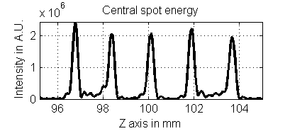 Example of peak intensity distribution for 5 foci after multifocal lens